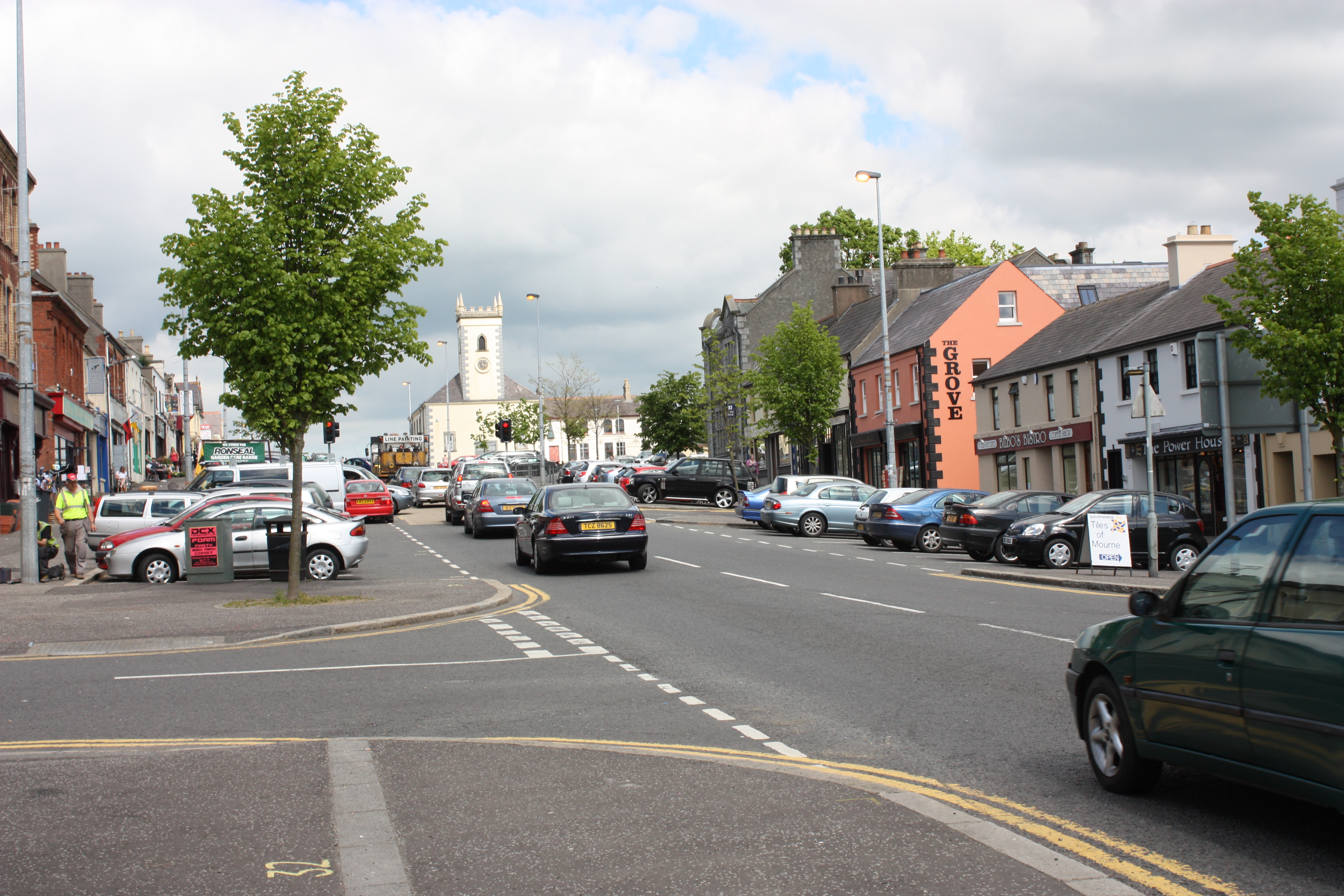 Main Street, Castlewellan, County Down, Northern Ireland, May 2010 (viewed from Lower Square, looking in Upper Square direction)